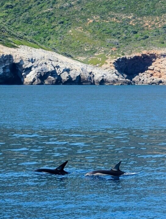 This is a photography of Natura 2000 protected area with ID GR1430004